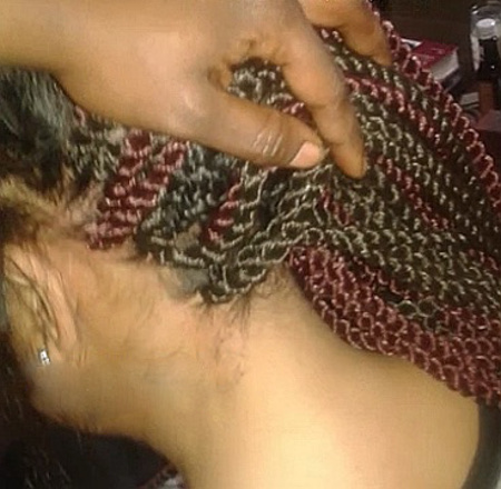 Crochet braids, also known as latch hook braids (This is an isolated screenshot from the Creative Commons video slideshow source to illustrate this hairstyle.)